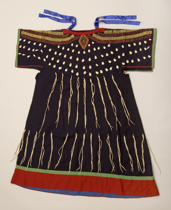 Dress Early 1900s. This woman’s wing dress was made using navy blue wool trade cloth, cotton cloth, cowrie shells, glass beads, satin ribbons and buckskin tied fringe. Fur traders and trading posts near Indian Reservations supplied Euro-American fabrics and blankets, supplementing natural materials. Colorful, lightweight fabrics commonly used included wool felt, flannel, corduroy, calico, and velvet. The wing dress evolved out of the original design of the “tail dress” or “two hide” dress. The T-shaped yoke includes open, cape-like sleeves. A printed cotton shirt or skirt was worn under the wing dress. Wool, cotton, shell, glass beads, buckskin. L 102.5, W 92 cm